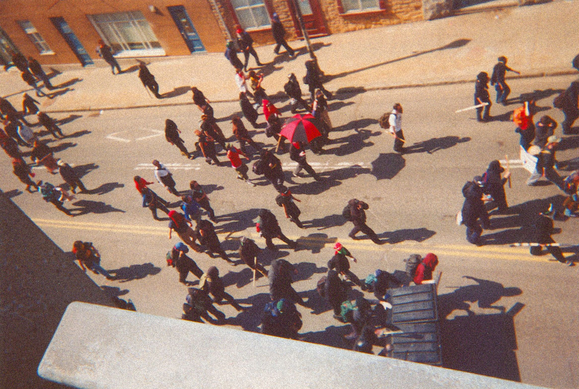 Black Bloc formation during Summit of the Americas protests in Quebec City, April 2001. The protesters are marching on Côte d'Abraham. Photo taken from Saint-Réal St. in Upper Town.